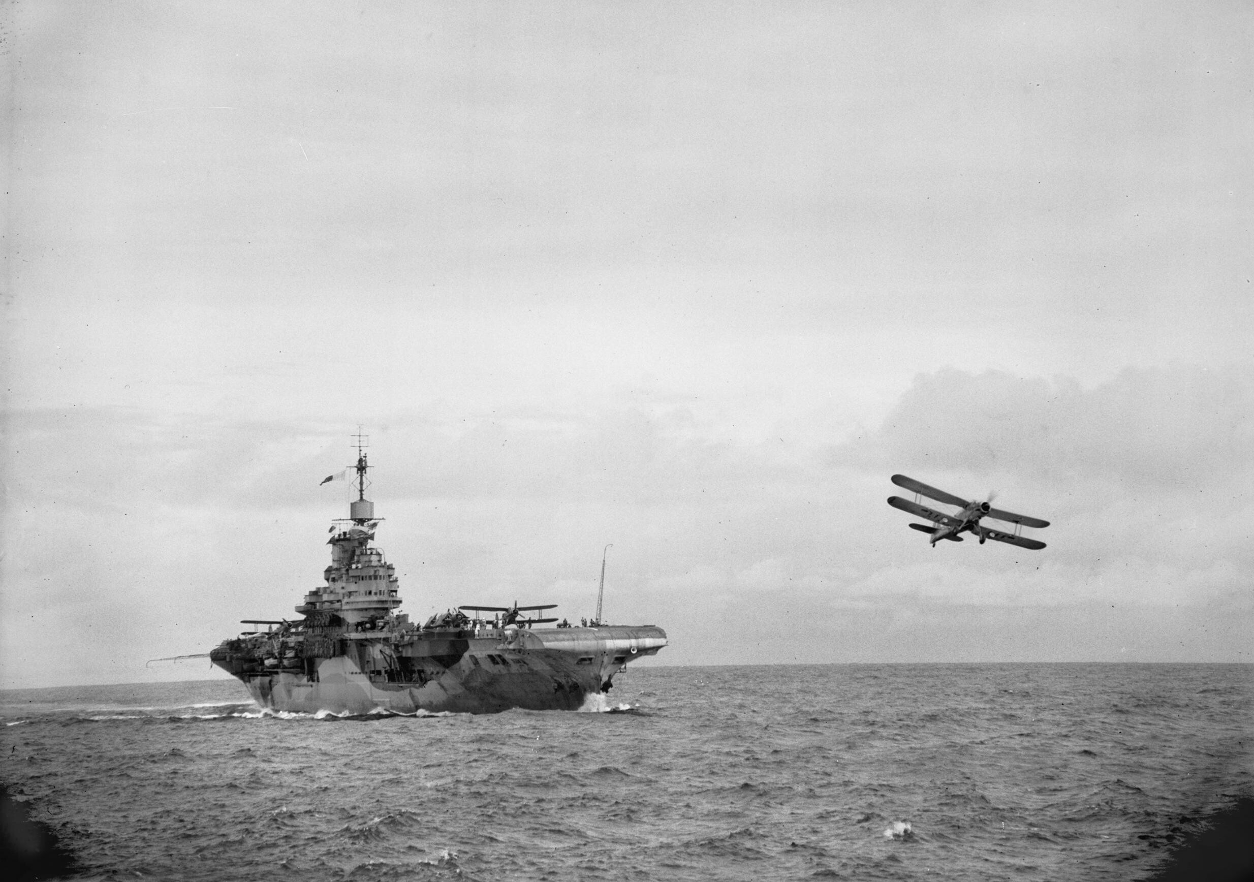 The Royal Navy during the Second World War Fairey Albacores of No 820 Squadron Fleet Air Arm from HMS FORMIDABLE in the Indian Ocean. One of the aircraft has just flown off the aircraft carrier whilst two more can be seen on deck (photographed from HMS WARSPITE).